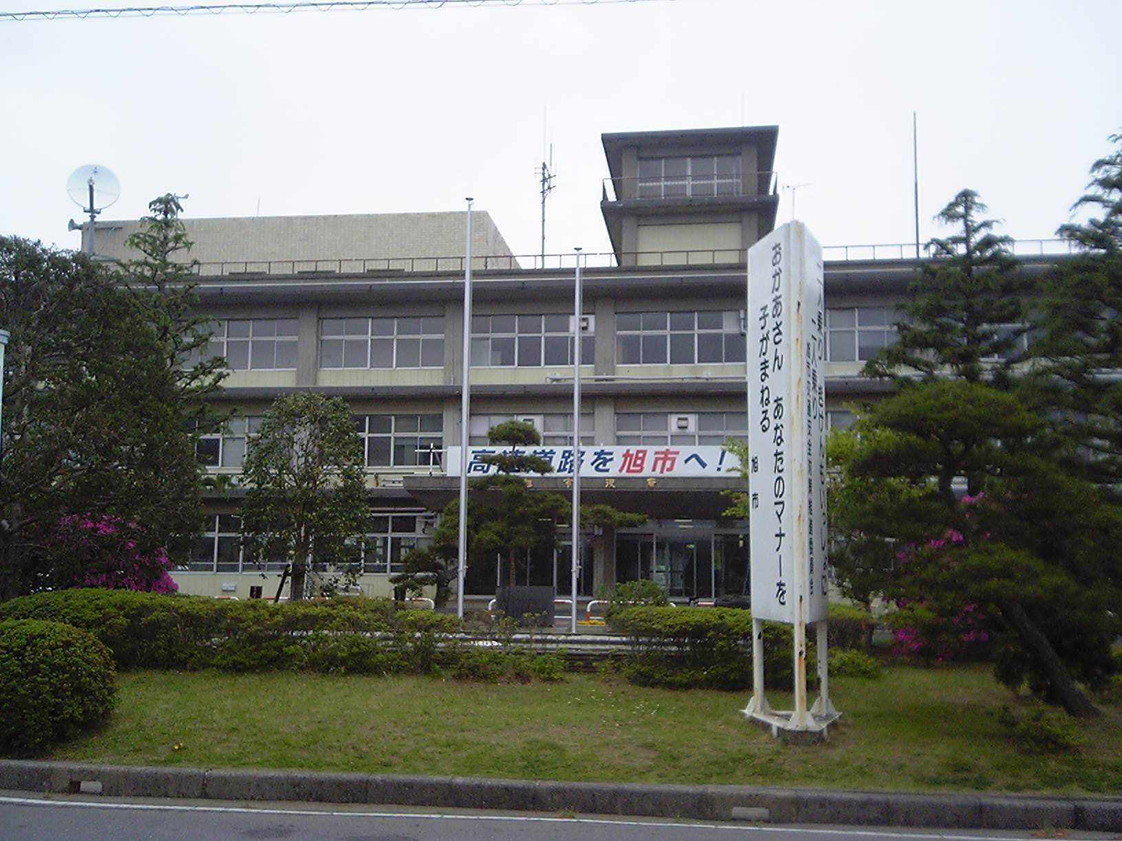 City Hall, Asahi city, Chiba, Japan